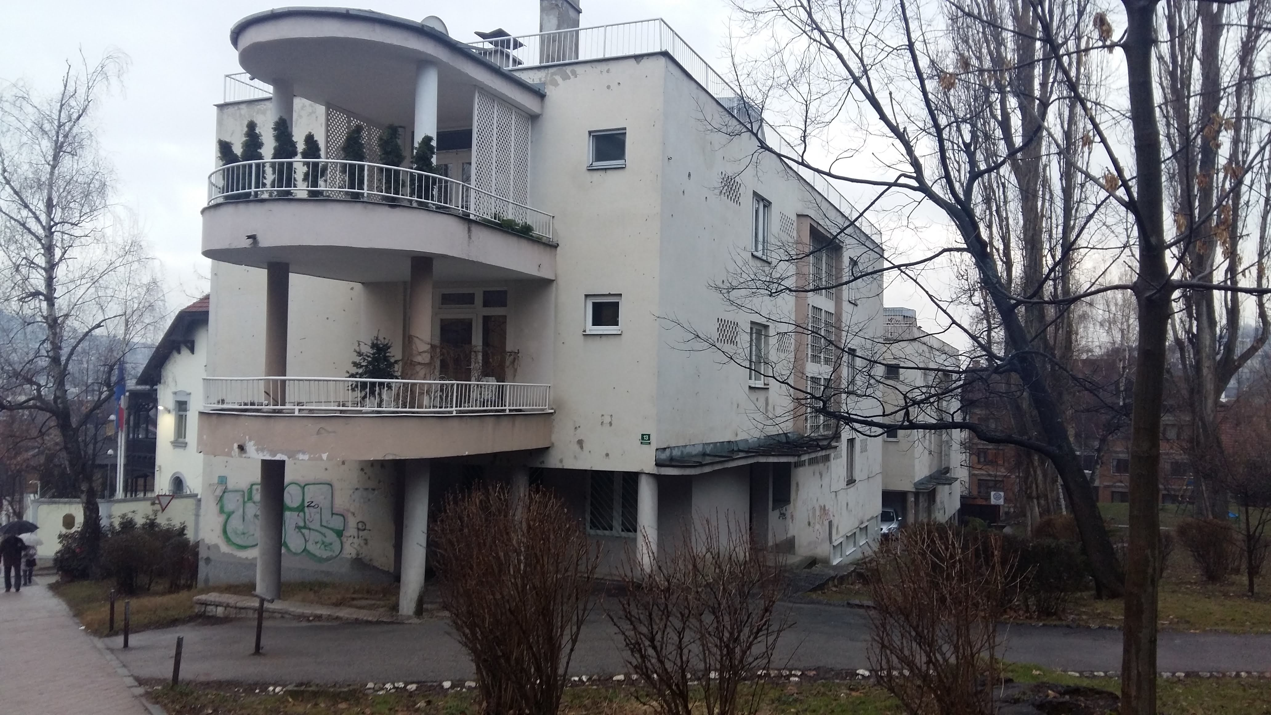 Džidžikovac main residential complex